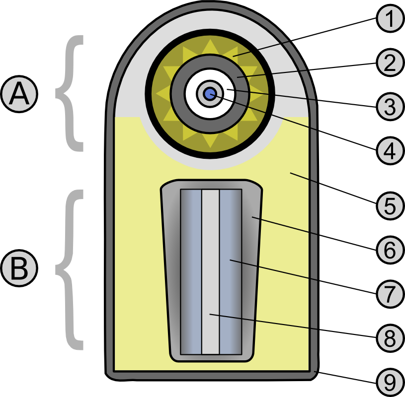 A: fission stage B: fusion stage High-Explosive lenses Uranium-238 ("tamper") Vacuum ("levitation") Tritium gas ("boosting", in blue) enclosed in plutonium or uranium hollow core Polystyrene foam Uranium-238 ("tamper") Lithium-6 deuteride (fusion fuel) Plutonium (sparkplug) Reflective casing (reflects X-Rays towards fusion device)